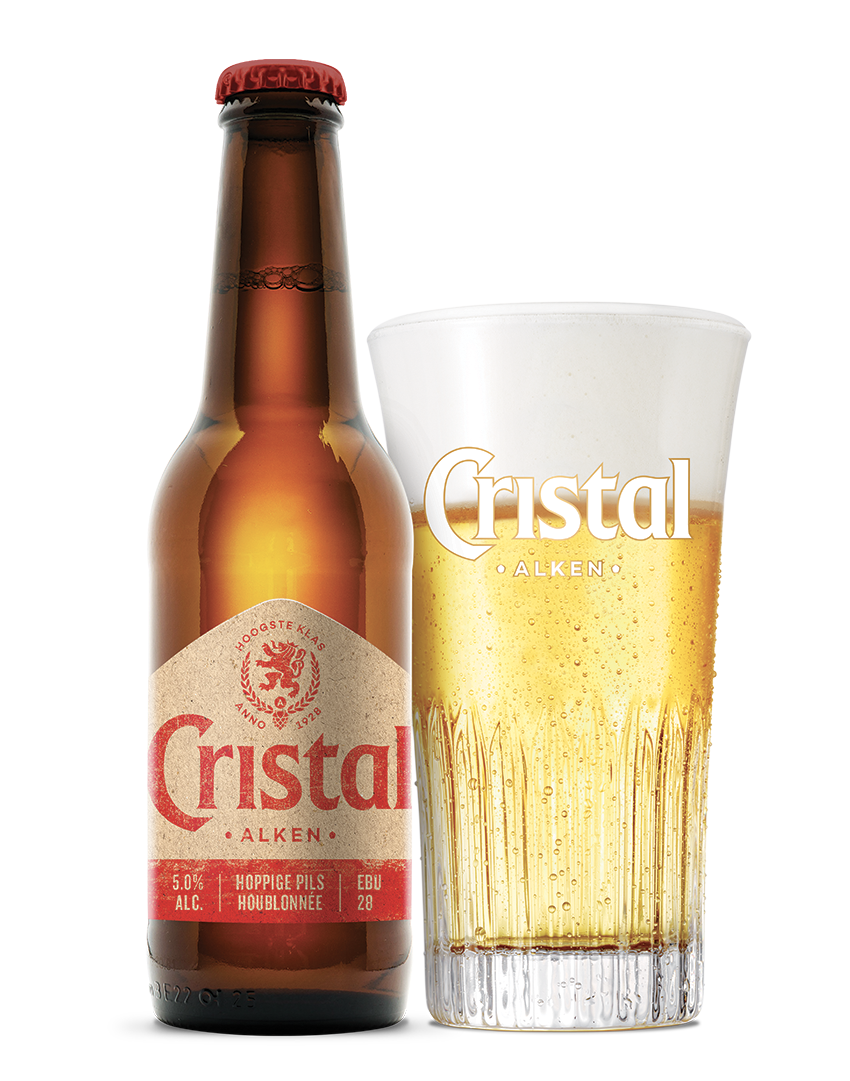 Cristal Bottle & Glass